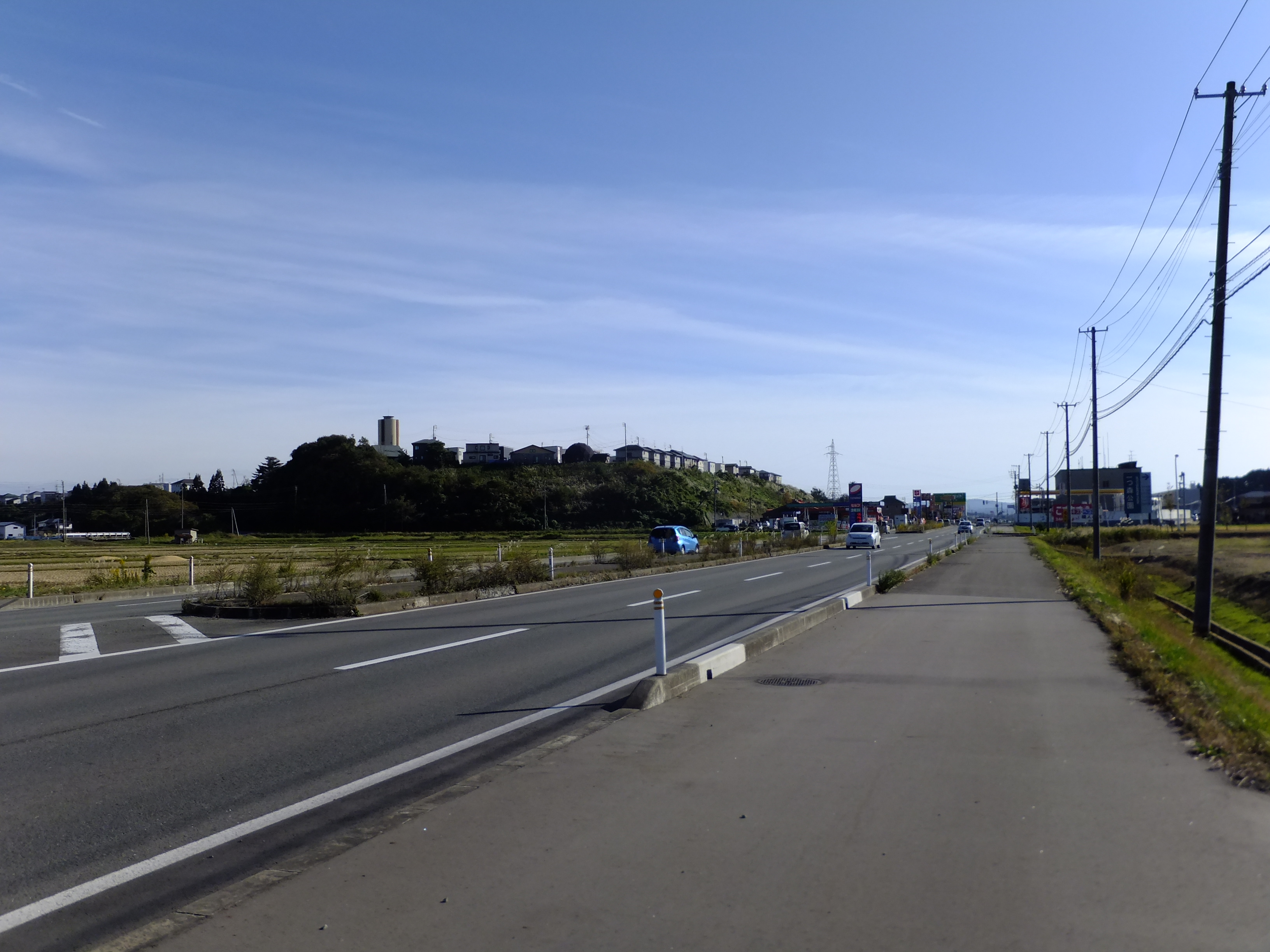 Akita prefectural road route 41 at Kamikitate, Akita city, Japan.